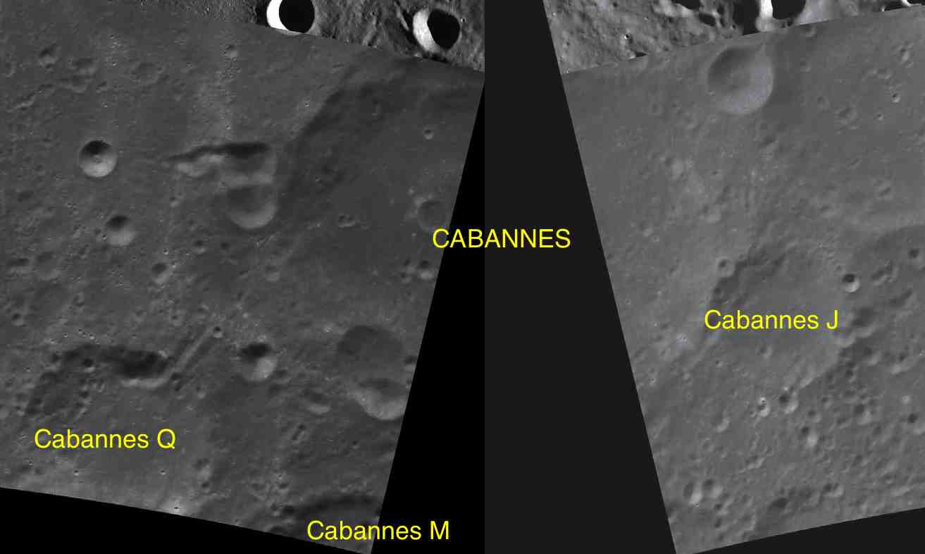 Parts of the charts LAC-132, LAC-133 used for the presentation